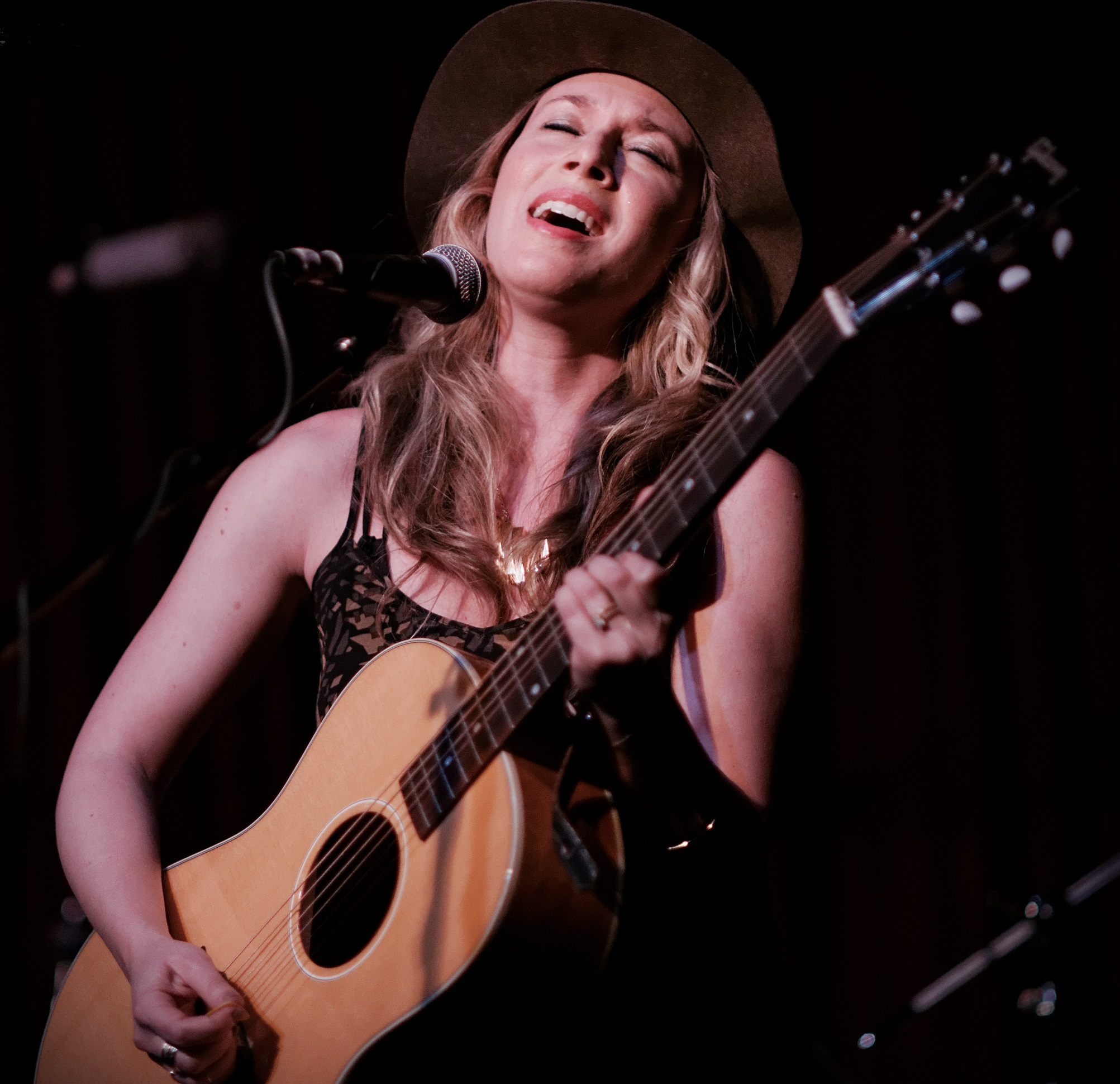 Toby Lightman at the Hotel Cafe in 2015